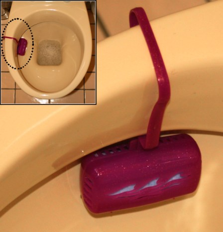 An image of a Toilet rim block an where it is located.